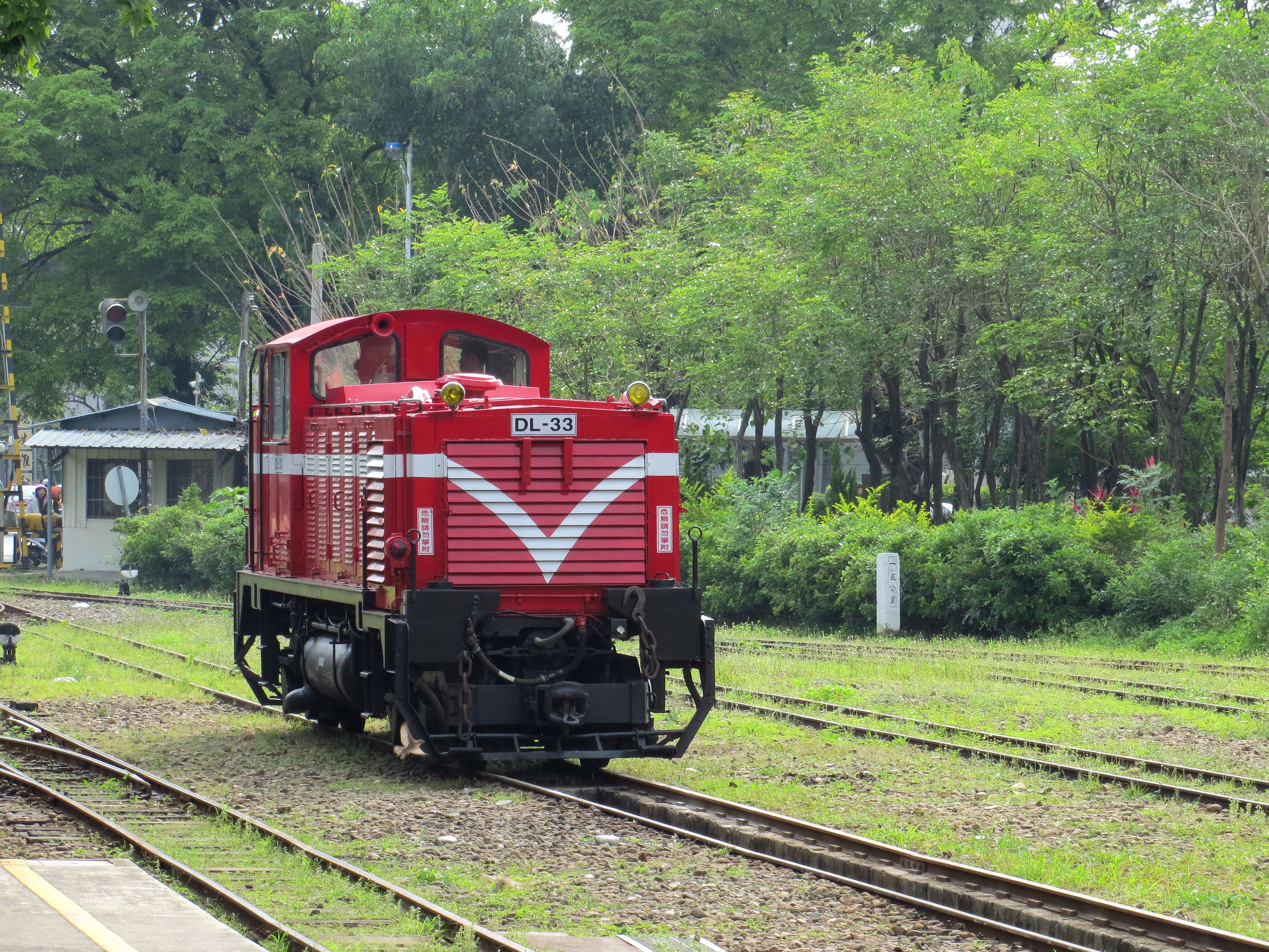 Alishan Forest Railway Diesel locomotive DL-33 at the Peimen Station, Chiayi, Taiwan.